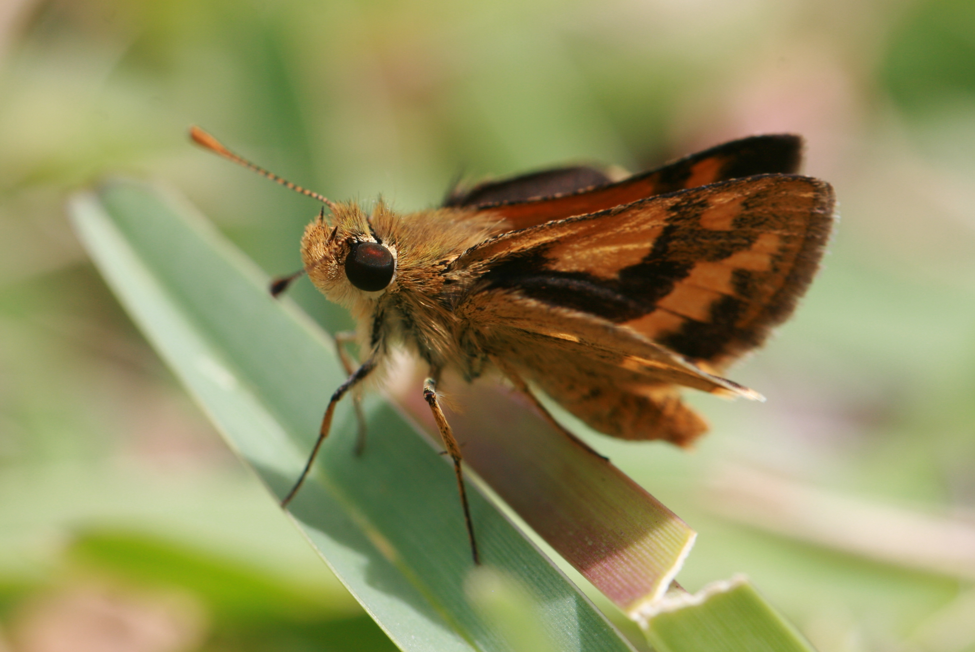 A female Narrow-brand Grass-dart (Ocybadistes flavovittata) in Kioloa, New South Wales, Australia.